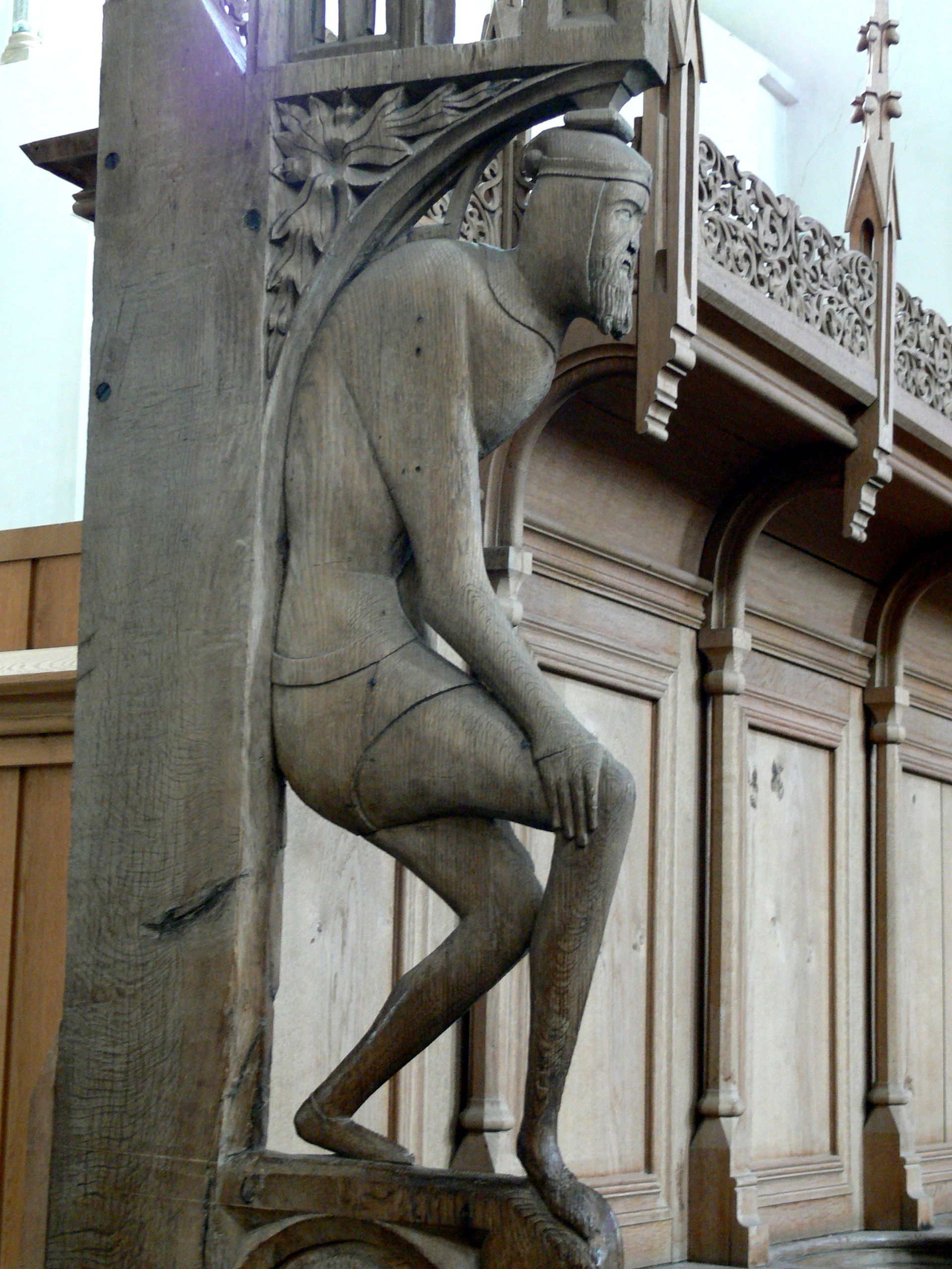 Ribe Cathedral. Choir stalls( 16th century ), donated by Ivar Munk